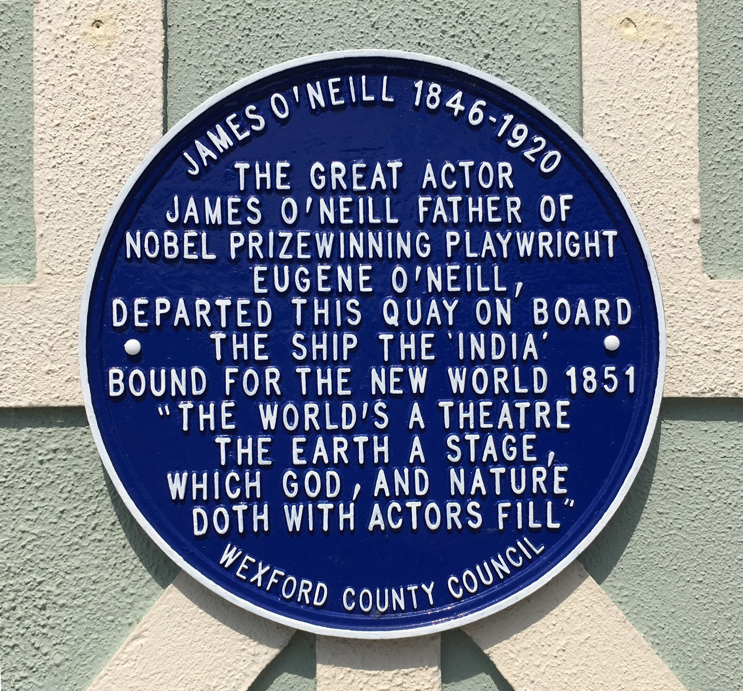 Actor James O'Neill plaque on the quayside in New Ross harbour, Wexford, Ireland, recalling his emigration to the 'New World' in 1851.